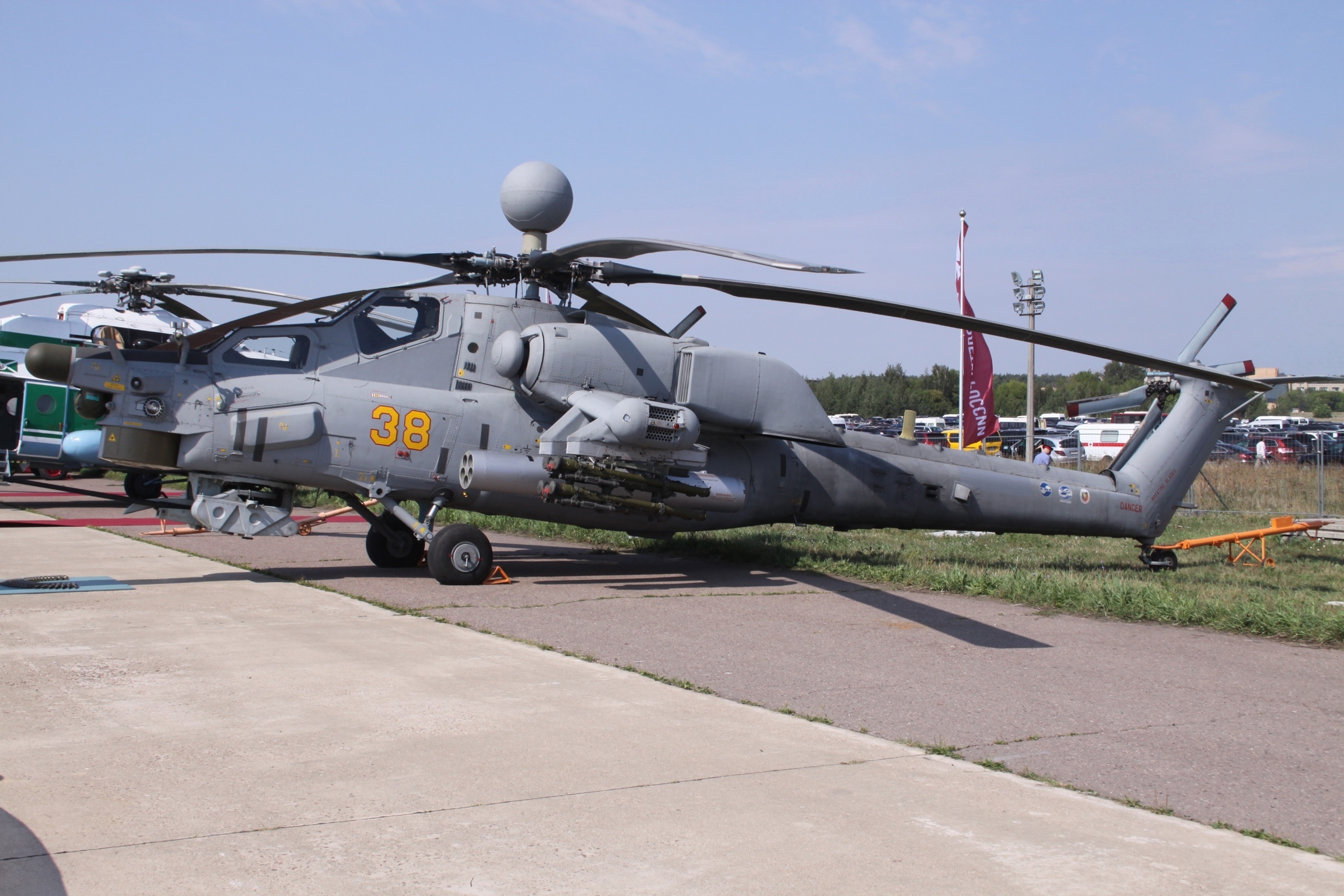 At Moscow Zhukovsky